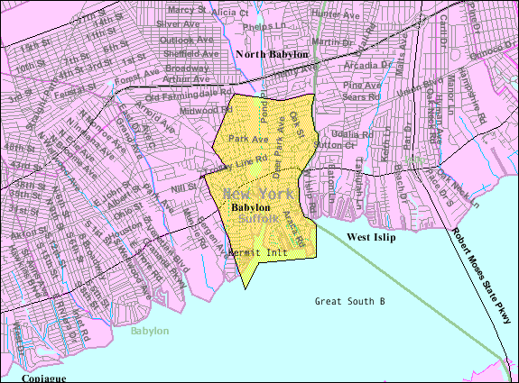 U.S. Census 2000 reference map for Babylon